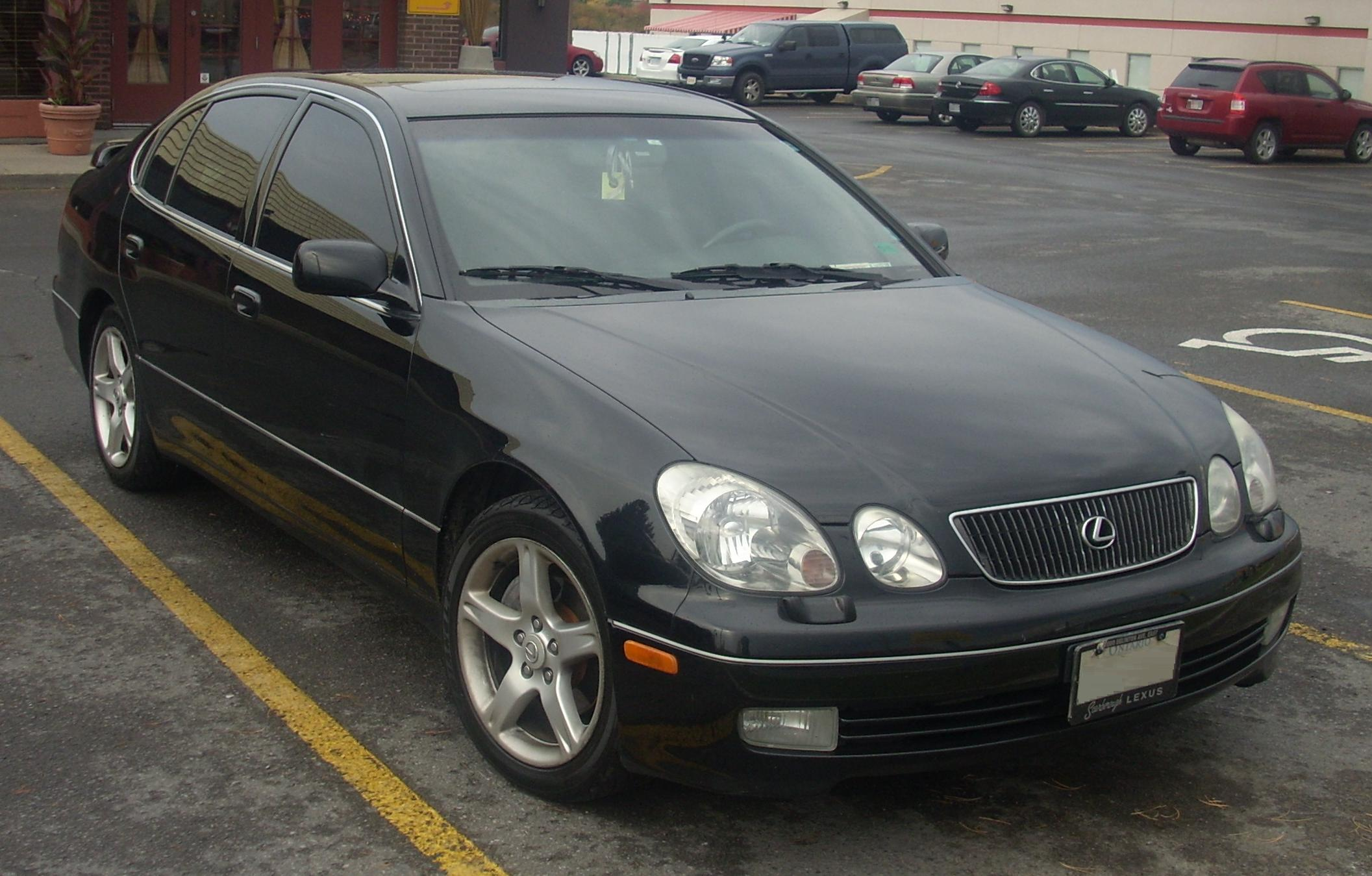 1998-2000 Lexus GS 400 photographed in Vaudreuil-Dorion, Quebec, Canada.